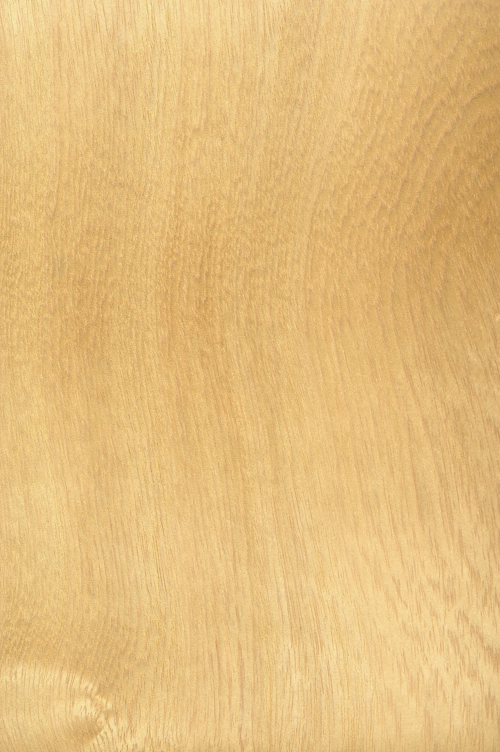 woodsurface (tangential) of Jacaranda mimosifolia, sample from collection of Thuenen-Institute of Wood Research, Hamburg (Germany)